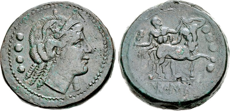 Rome Anonymous. Circa 217-215 BC. Æ Triens (38mm, 50.90 g, 4h). Semi-Libral standard. Rome mint. Head of Juno right, wearing crescent-shaped diadem, hair falling in tight rolls onto shoulders; scepter over left shoulder, •••• (mark of value) to left Hercules fighting Centaur right: Hercules holding Centaur’s hair with left hand, about to strike him with club held in right; •••• (mark of value) to right, RoMA in exergue. Good VF, two-tone green patina. Property of Princeton Economics acquired by Martin Armstrong.